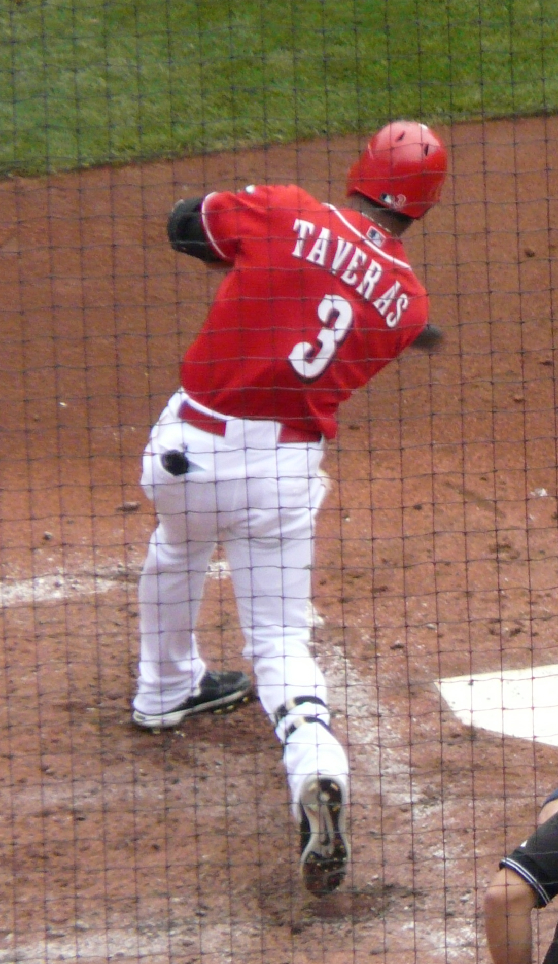 Willy Taveras